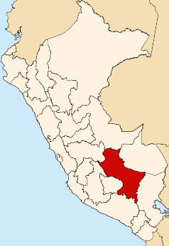 Location of the Cusco region in Peru Created by Tuomas Carrasco - Feb. 2005